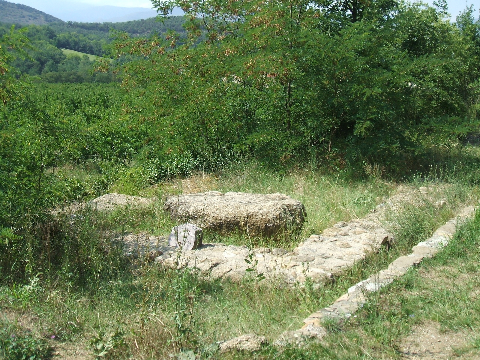 Codalet (Pyrénées-Orientales département, Languedoc-Roussillon région, France) : Abbey of Saint-Michel-de-Cuxa. Remains of the hermitage of Pietro I Orseolo, former Doge of Venice.